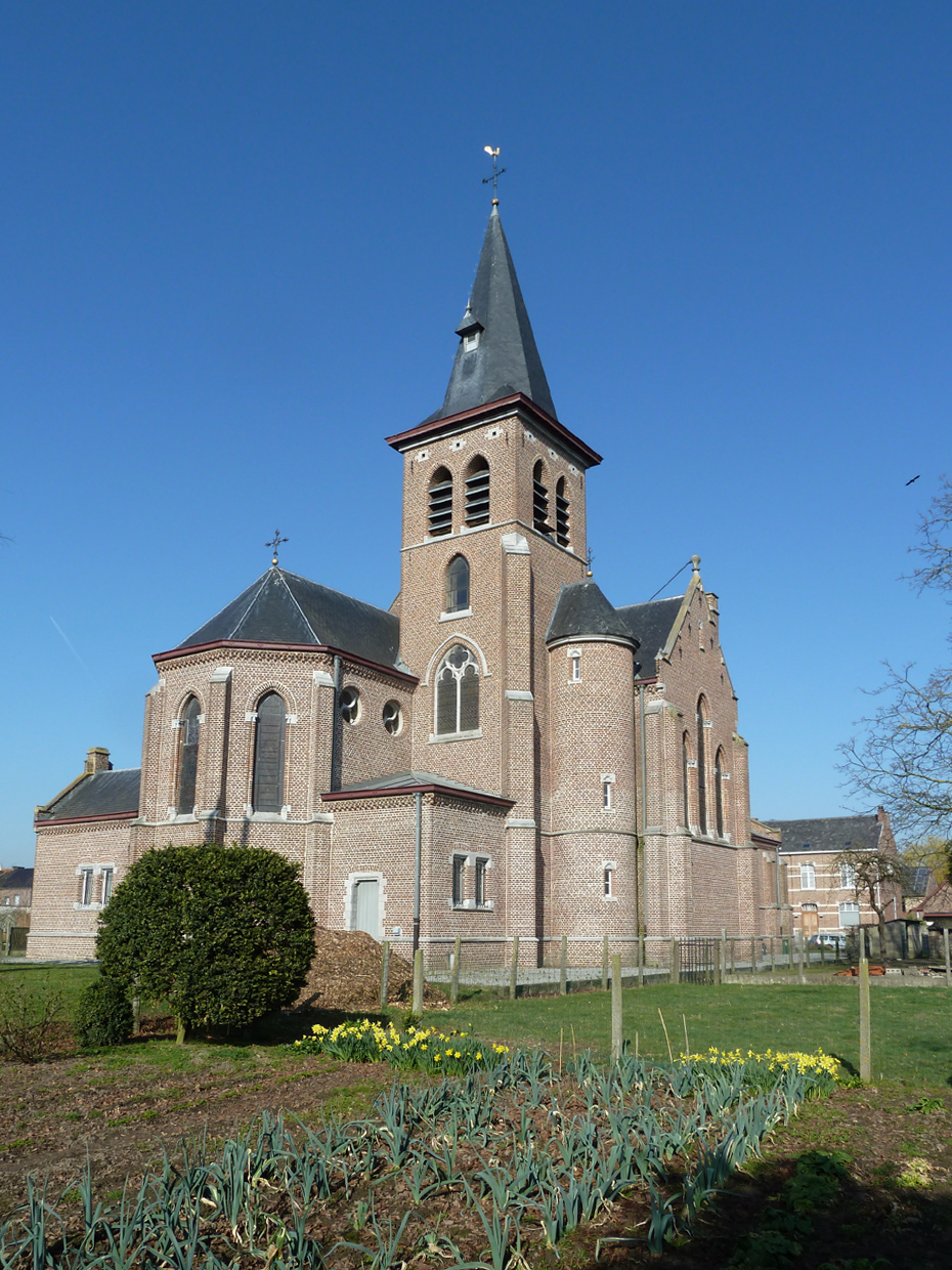 Church Drieslinter (Belgium)